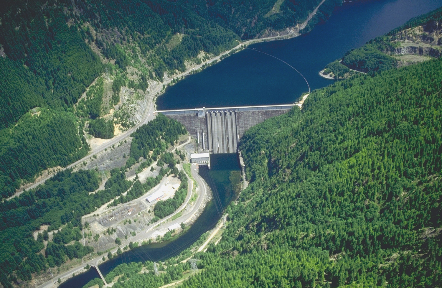 Detroit Dam on the North Santiam River near Detroit, Marion County, in the U.S. state of Oregon. View is upriver to the southeast.